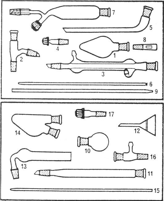 Quickfit